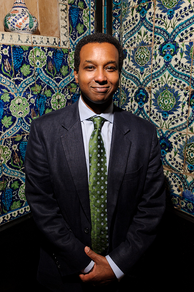 Rageh Omaar at the launch of the Nour Festival